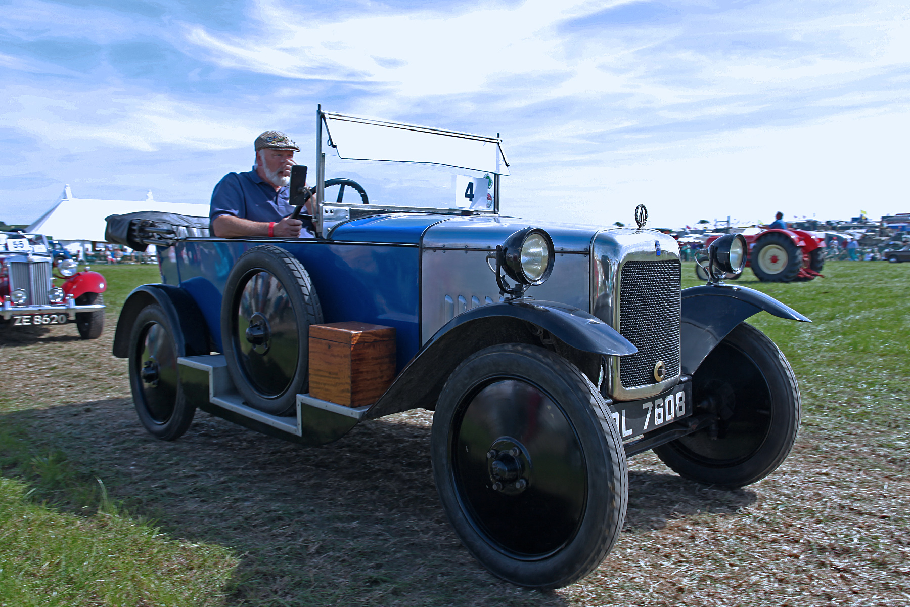 1922 to 1926 BSA TB210HP Roadster V Twin Rear-Wheel-Drive The 1914-18 war stopped production of BSA cars and it was not until 1921 that production of cars resumed. This was no badge-engineered Daimler but a genuine attempt to move into the light car market with the RWD V twin. This car used an engine based on the Hotchkiss designed 900 V twin introduced in early 1921. The car was certainly designed at Small Heath and may well have been produced in one of BSA's Birmingham factories, but this is by no means certain. The car was eventually produced with V twin, 4 cylinder one 6 cylinder engine with the latter being a Knight sleeve valve engine. The cars were produced between 1922 and 1926. BSA constructed a large new factory on the Coventry Road, Birmingham which was known as the light car works to handle production of these vehicles. Production of the RWD cars never really came to anything with estimates of the numbers produced for all models quoted at around 1000 over the 4 years.